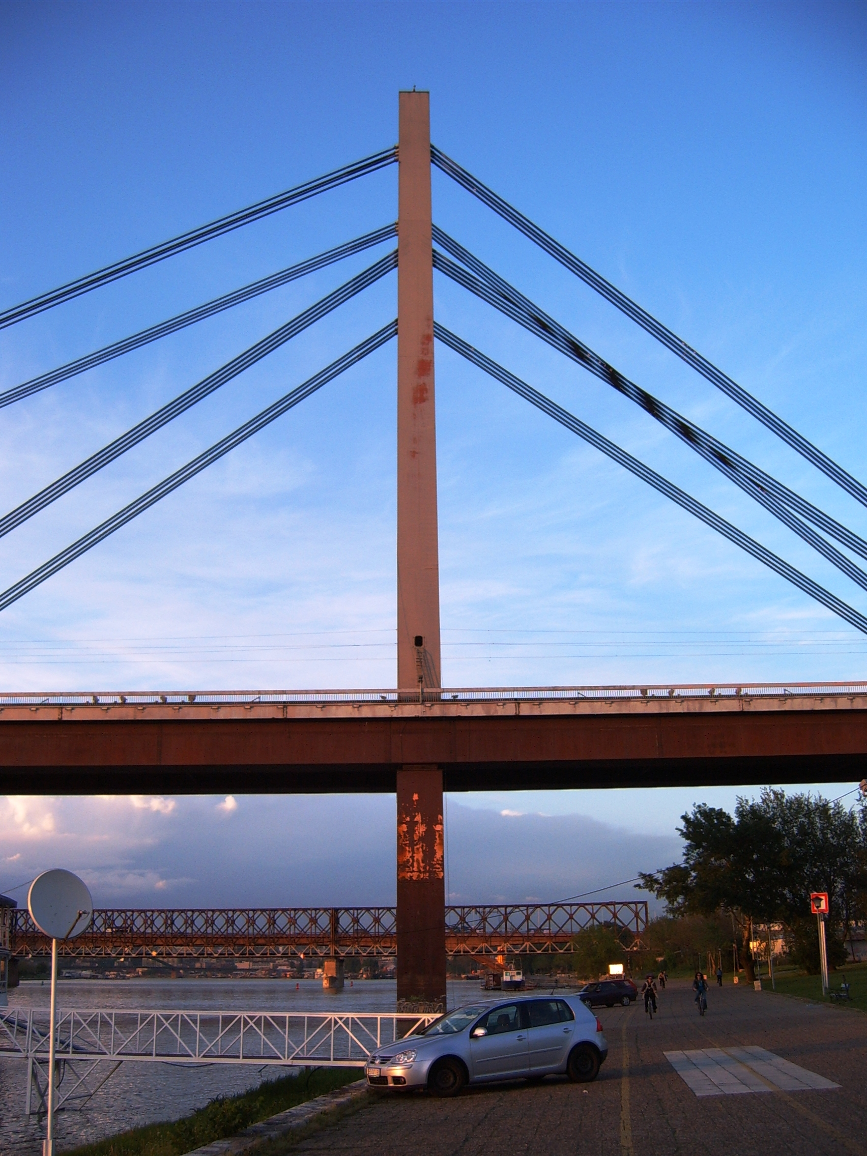 Pilon - New Railway Bridge Belgrade